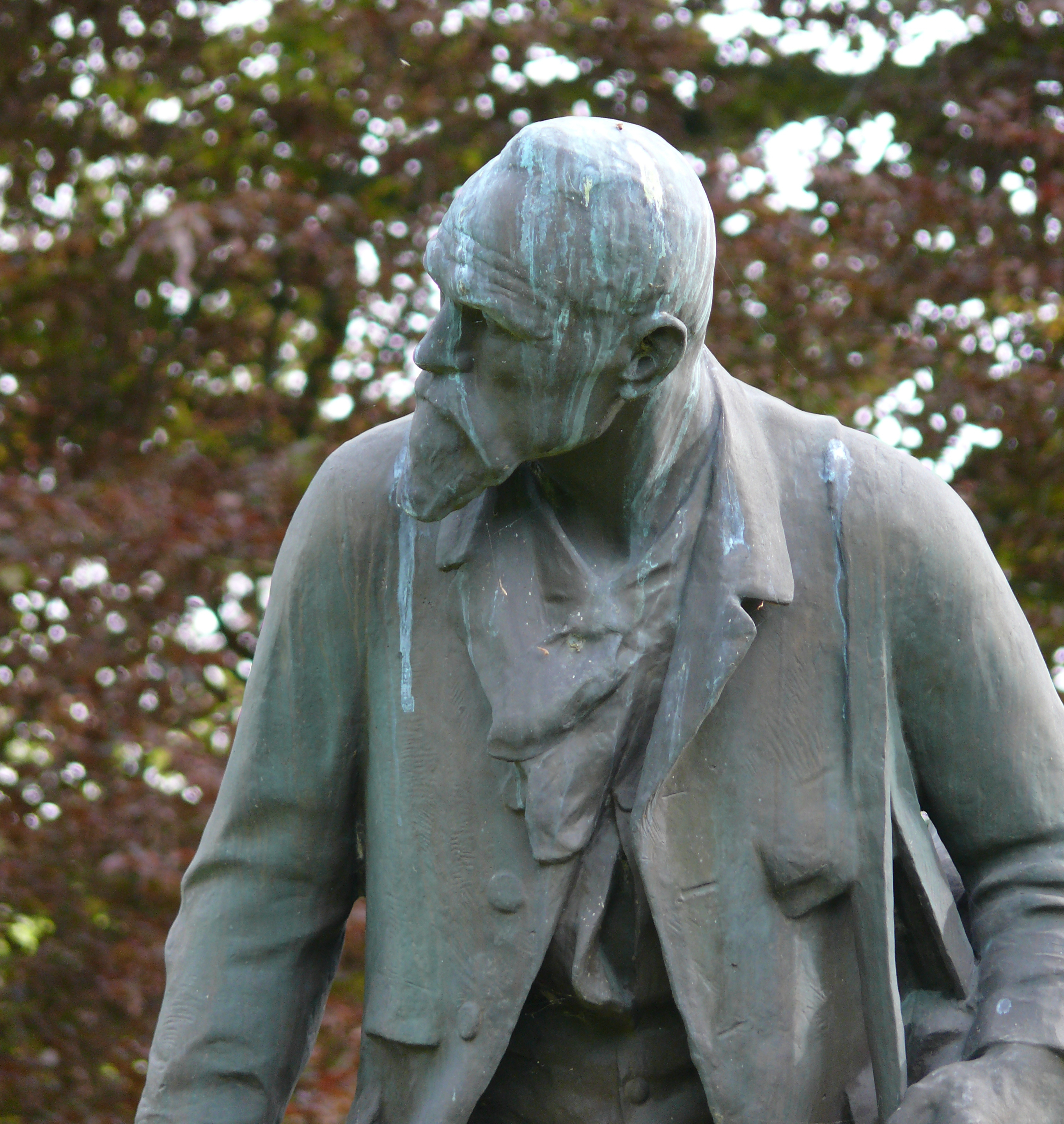 Monument in honour of Théodore Baron (1840 – 1899) a Belgian landscape painter, by Pierre Charles Van der Stappen (1843 - 1910).